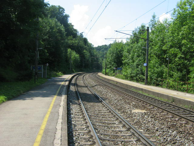 Railway station of Eugendorf